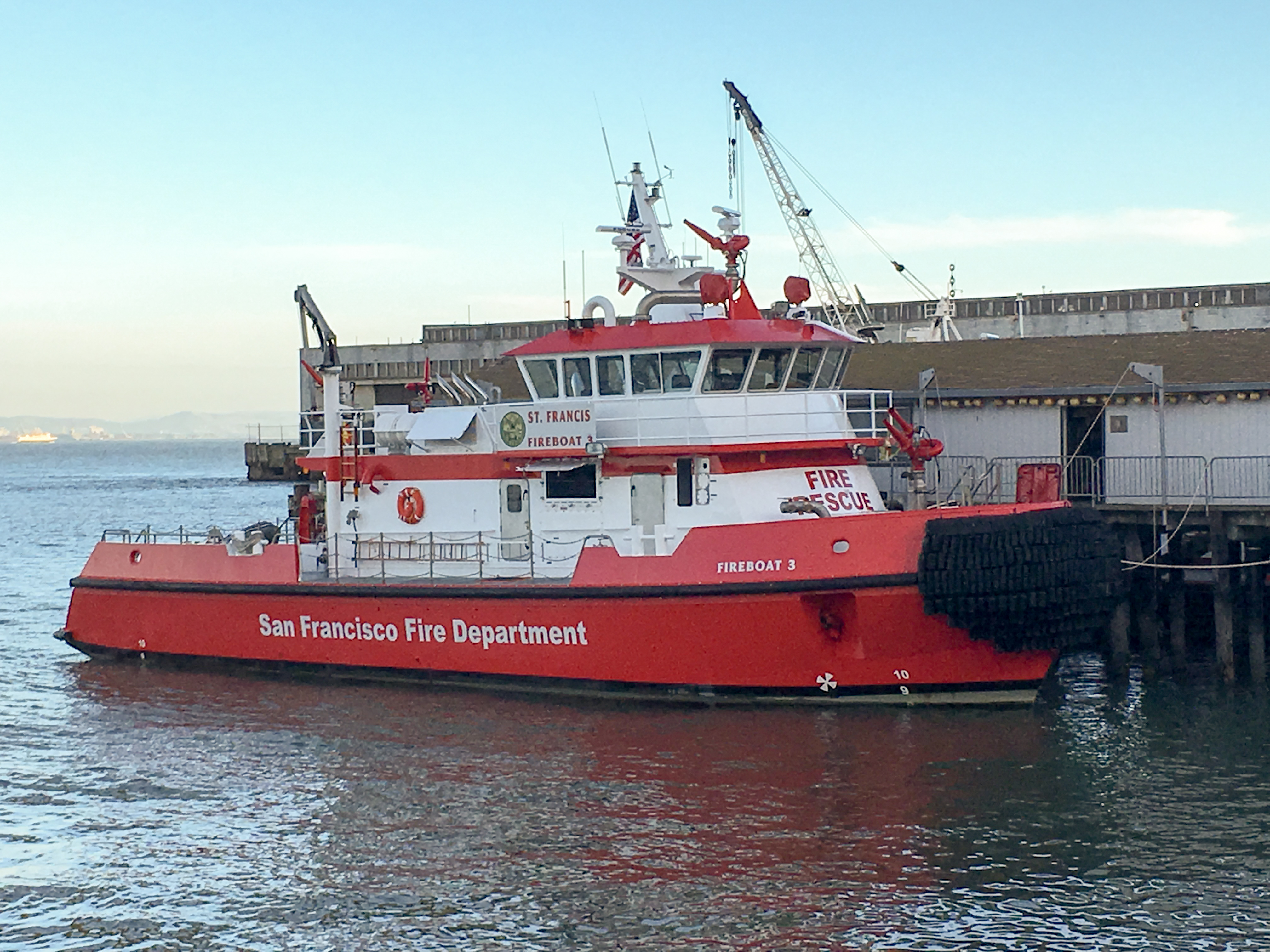 San Francisco Fire Department Fireboat 3 - St Francis, San Francisco, California